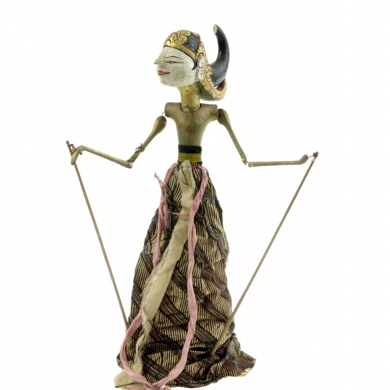 Wooden shadow puppet